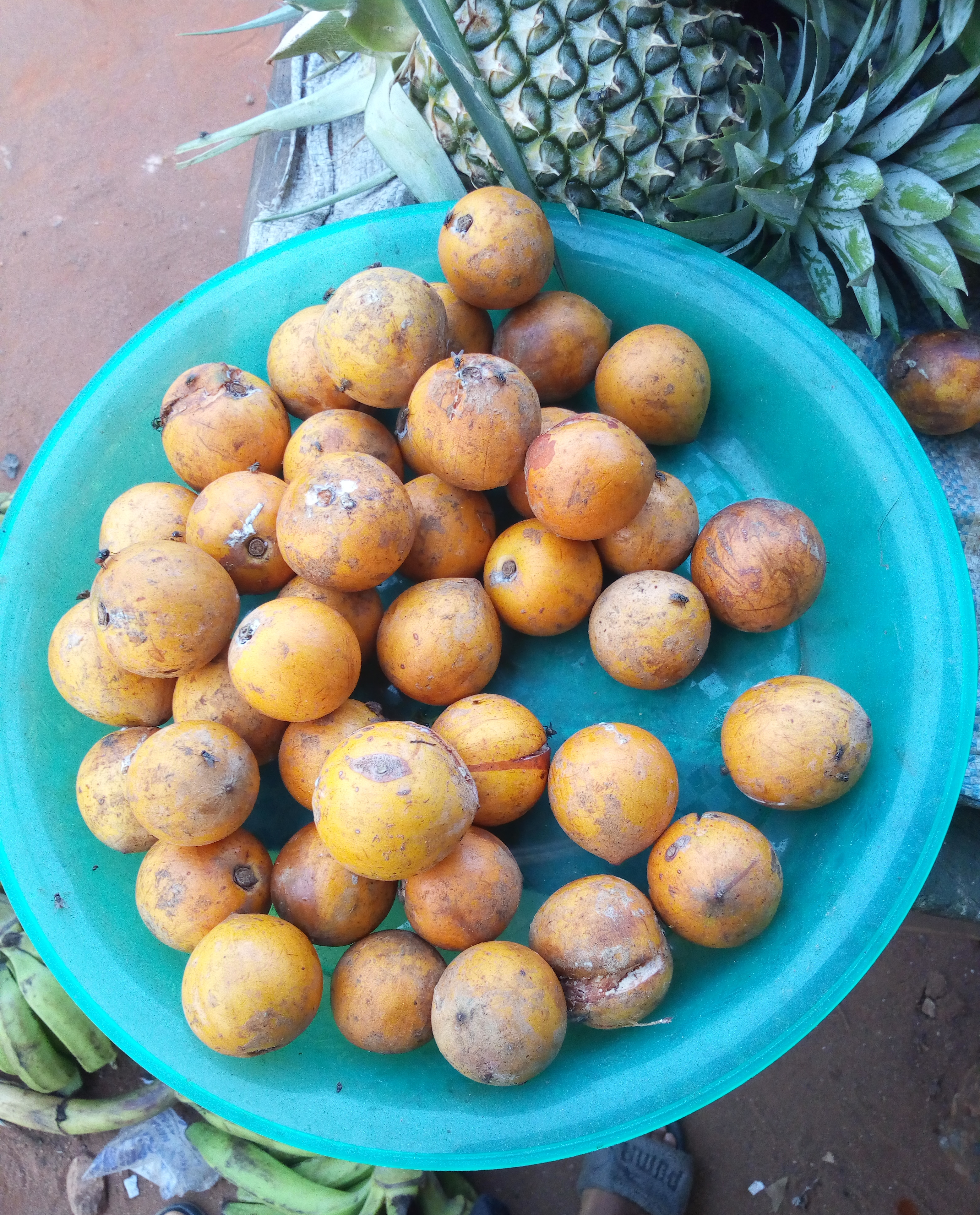 Chrysophyllum albidum, African star apple, African cherry, Agbalumo, Udala, Udara, on a green tray